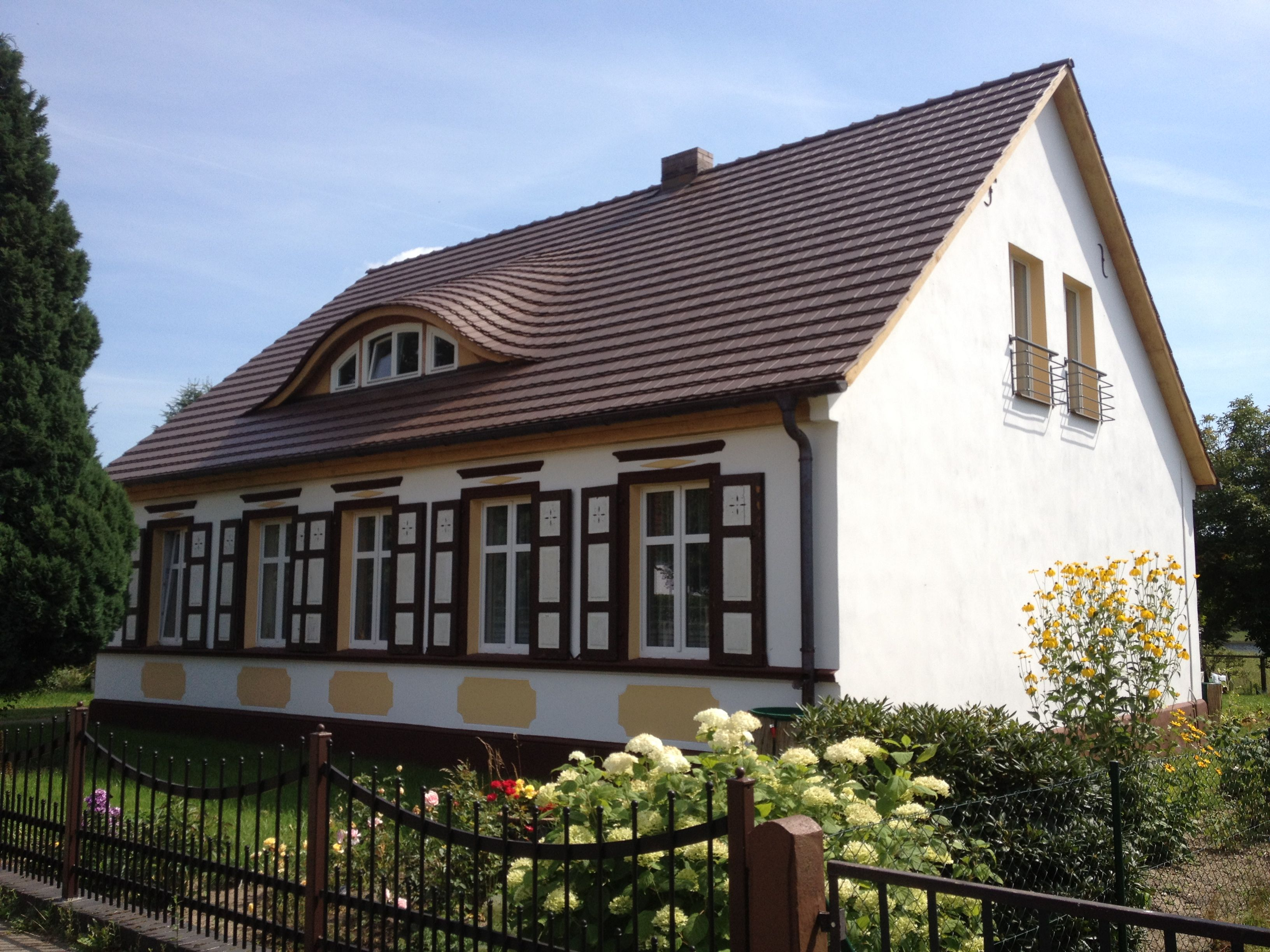 Wohnhaus in Groß Väter